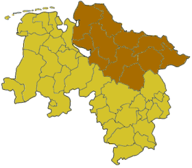 Map of Lower Saxony highlighting Lueneburg region